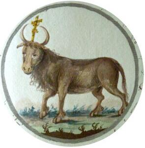 Coat of Arms of Perloja city in 1792